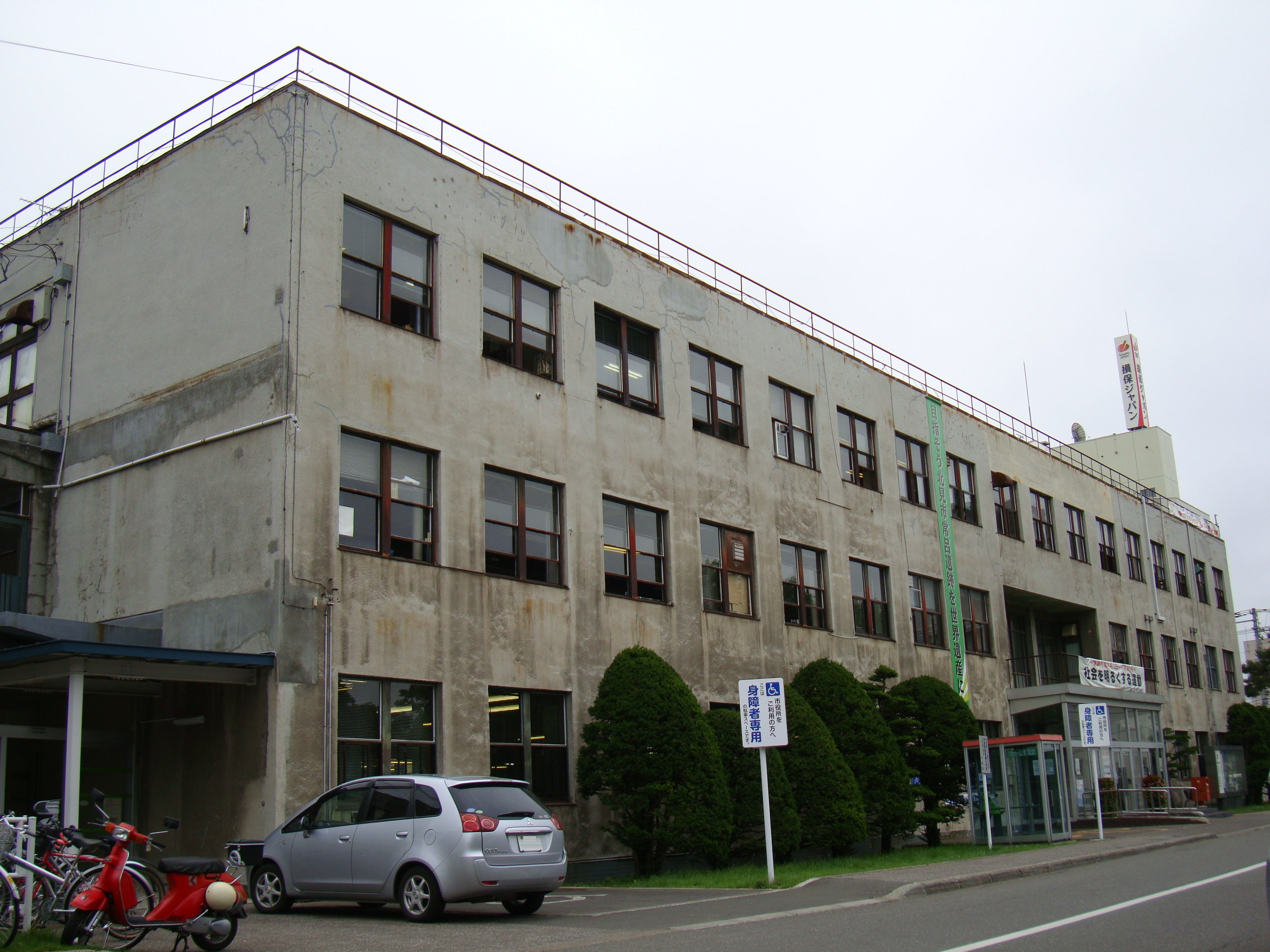 Kitami City Hall